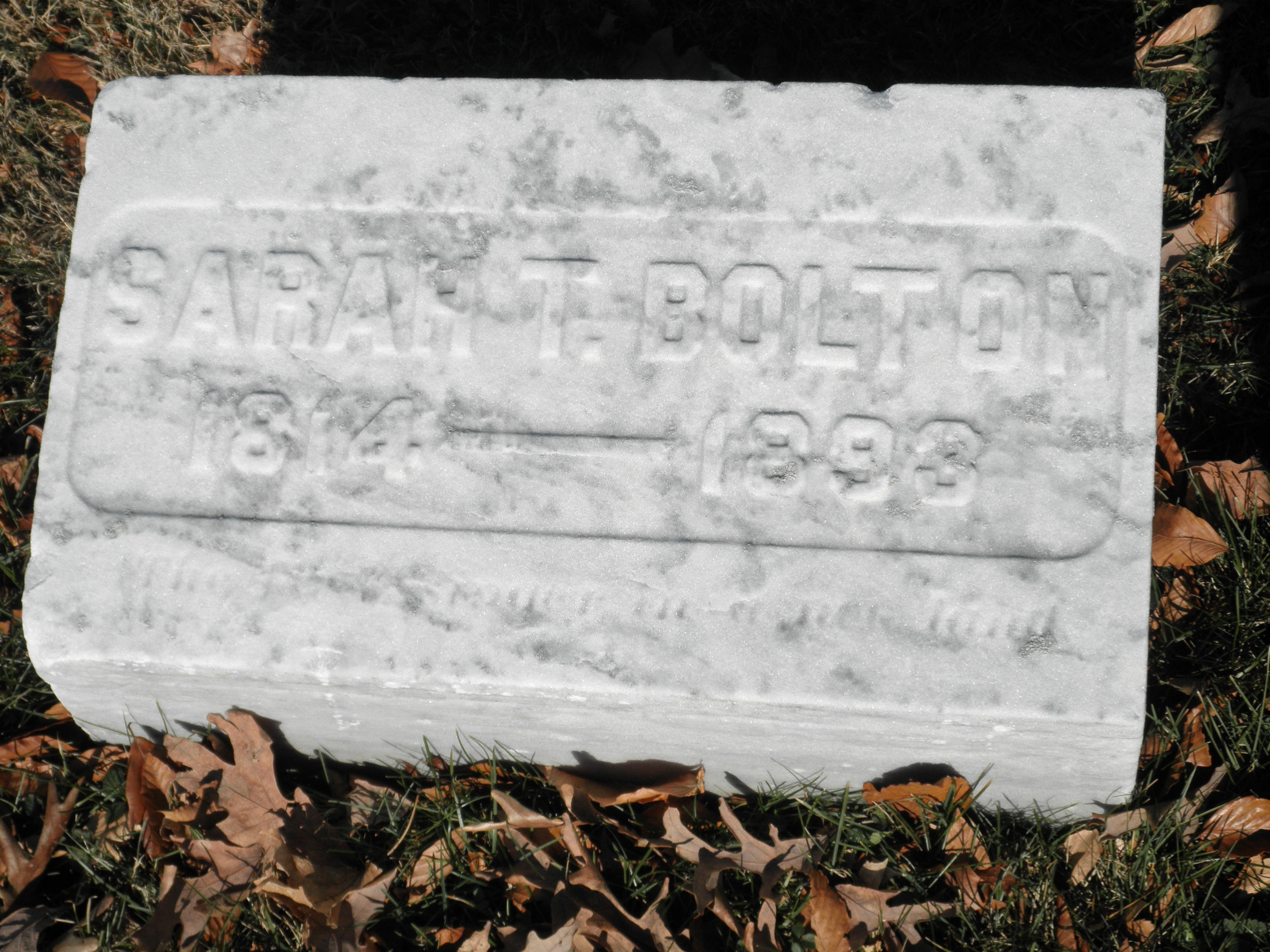 Gravestone of Sarah T. Bolton (1814-1893), in Crown Hill Cemetery, Indianapolis, Indiana. Gravestone reads, "Sarah T. Bolton, 1814–1893, The first singer in a new land."